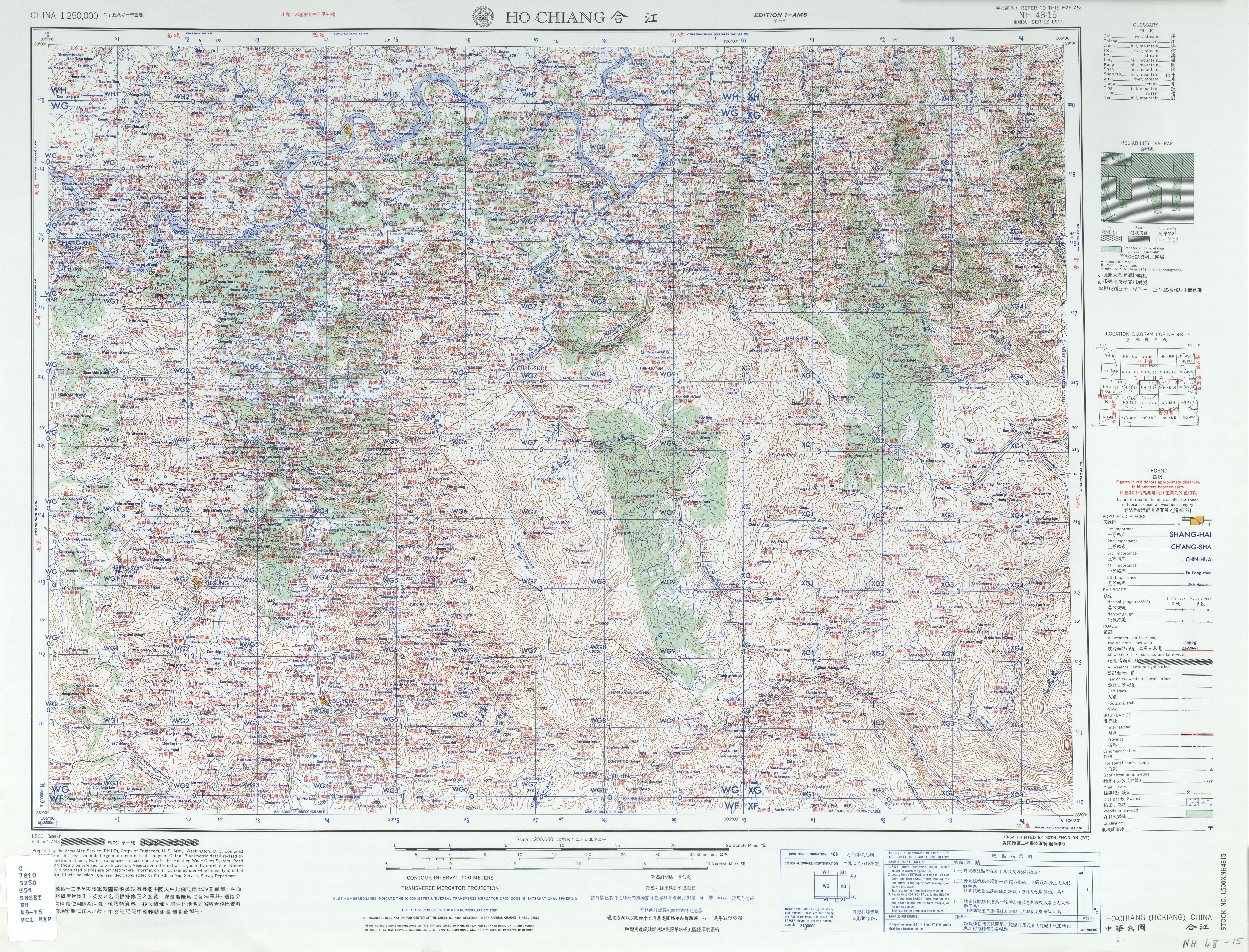 China AMS Topographic Maps